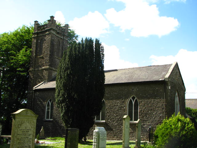 Mothel Parish Church A lovely Church, situated in a picturesque setting, with a old graveyard. This Church is surrounded by of miles of unspoiled countryside.